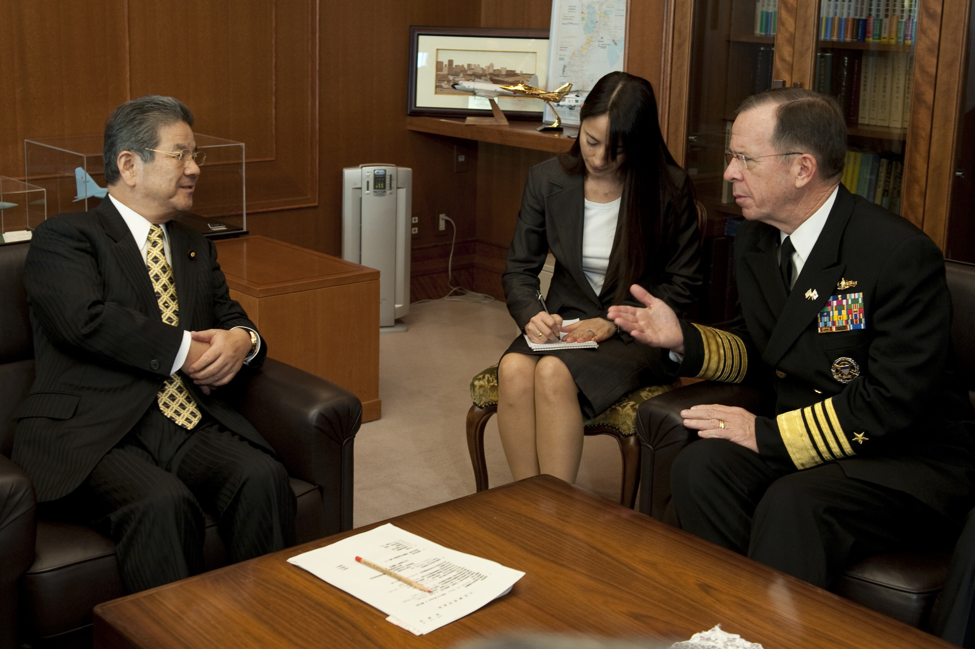 Michael Mullen, Chairman of the Joint Chiefs of Staff, talked with Toshimi Kitazawa, Minister of Defense, at the Ministry of Defense in Shinjuku Ward, Tōkyō Metropolis on December 9, 2010.